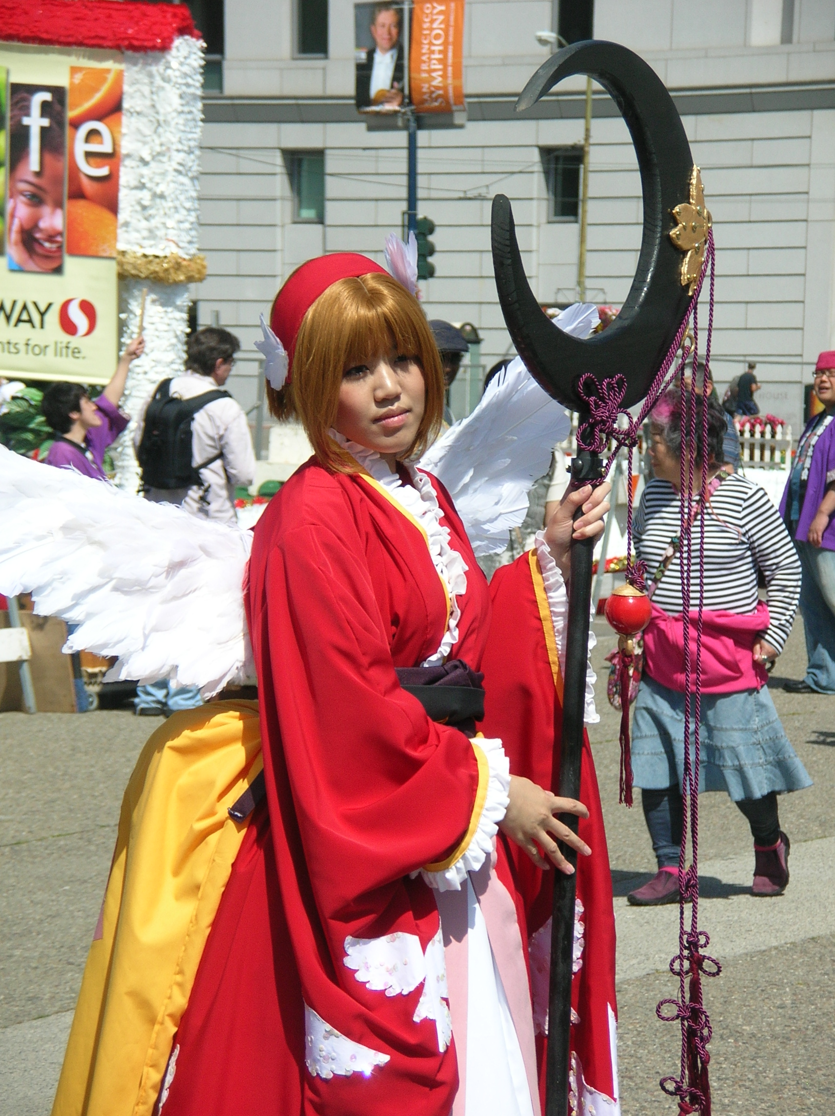 A cosplayers portraying Sakura Kinomoto from Cardcaptor Sakura competing in the costume contest at the Northern California Cherry Blossom Festival in San Francisco, California.